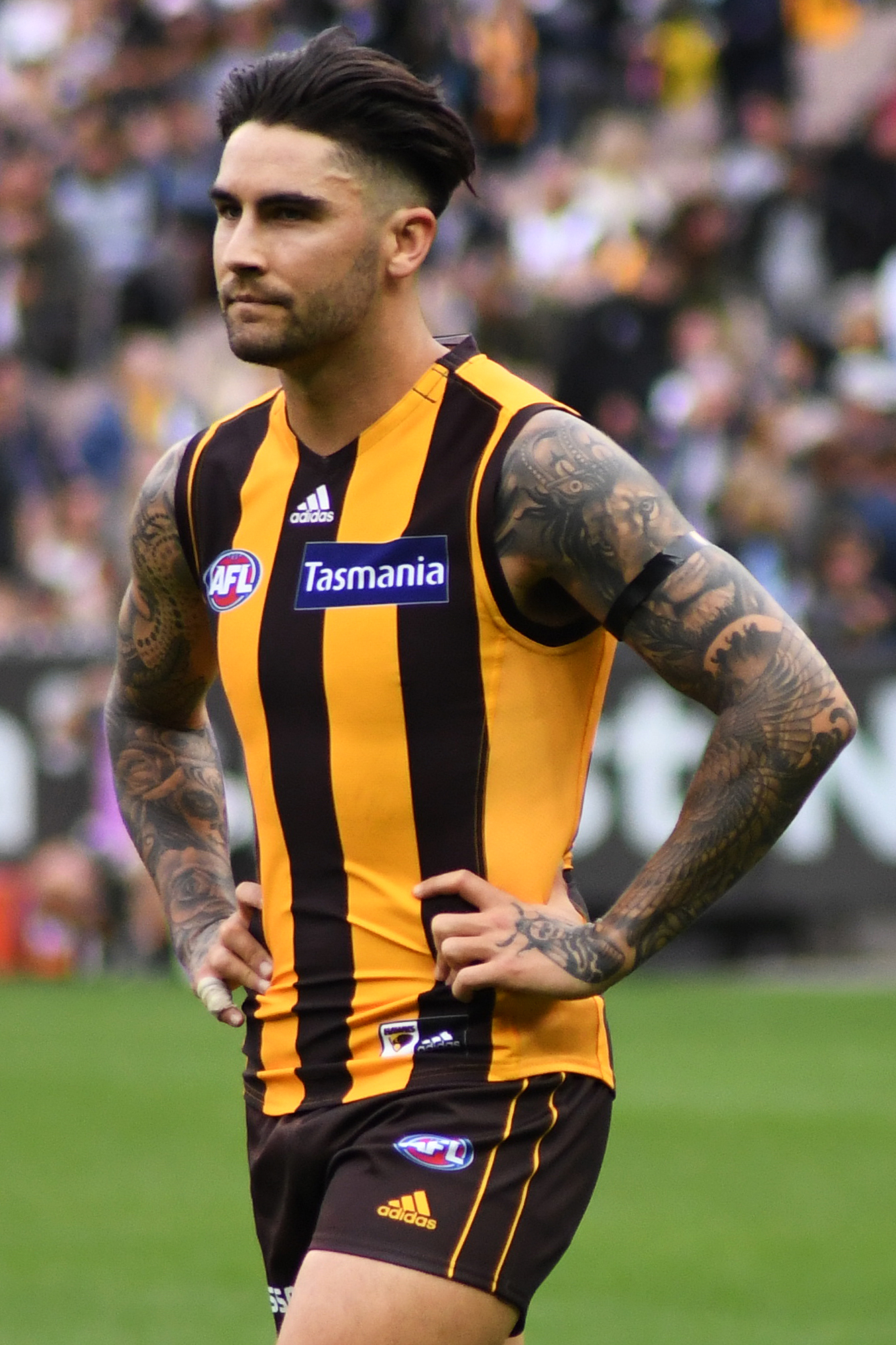 Chad Wingard of Hawthorn during the 2019 AFL round 5 match between Hawthorn and Geelong at the Melbourne Cricket Ground on Monday, 22 April 2019 in Melbourne, Victoria.